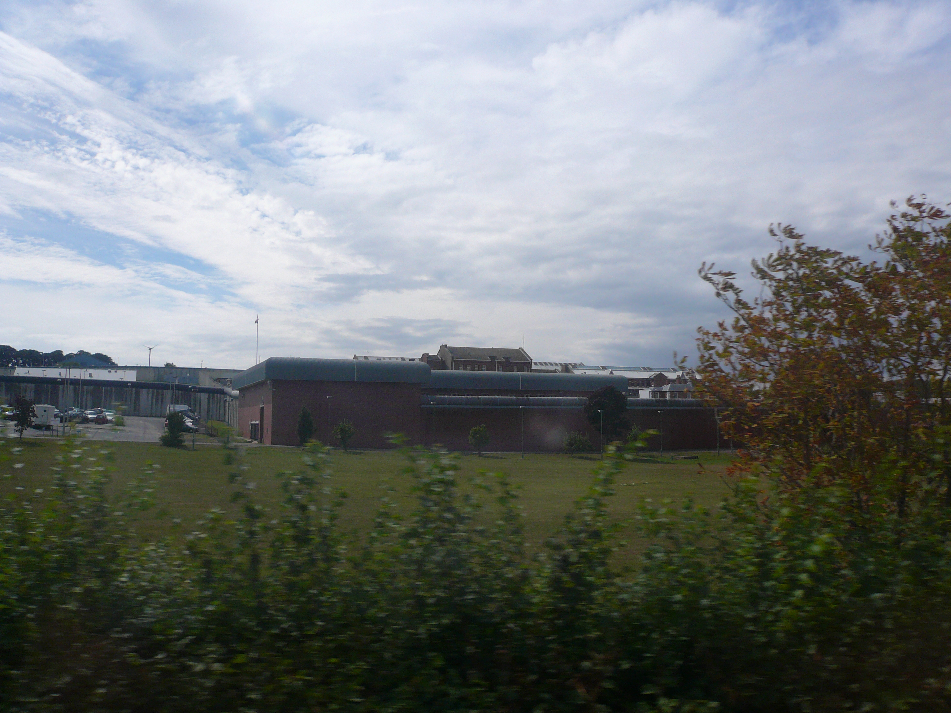 The view towards HMP Isle of Wight, on the outskirts of Newport, Isle of Wight seen from the top deck of a Southern Vectis bus on route 1. The photo was taken during Cowes Week, meaning the Fountain Quay in Cowes was closed and all buses terminated at the Co-op. This then enables double-decker buses to be used on the route.